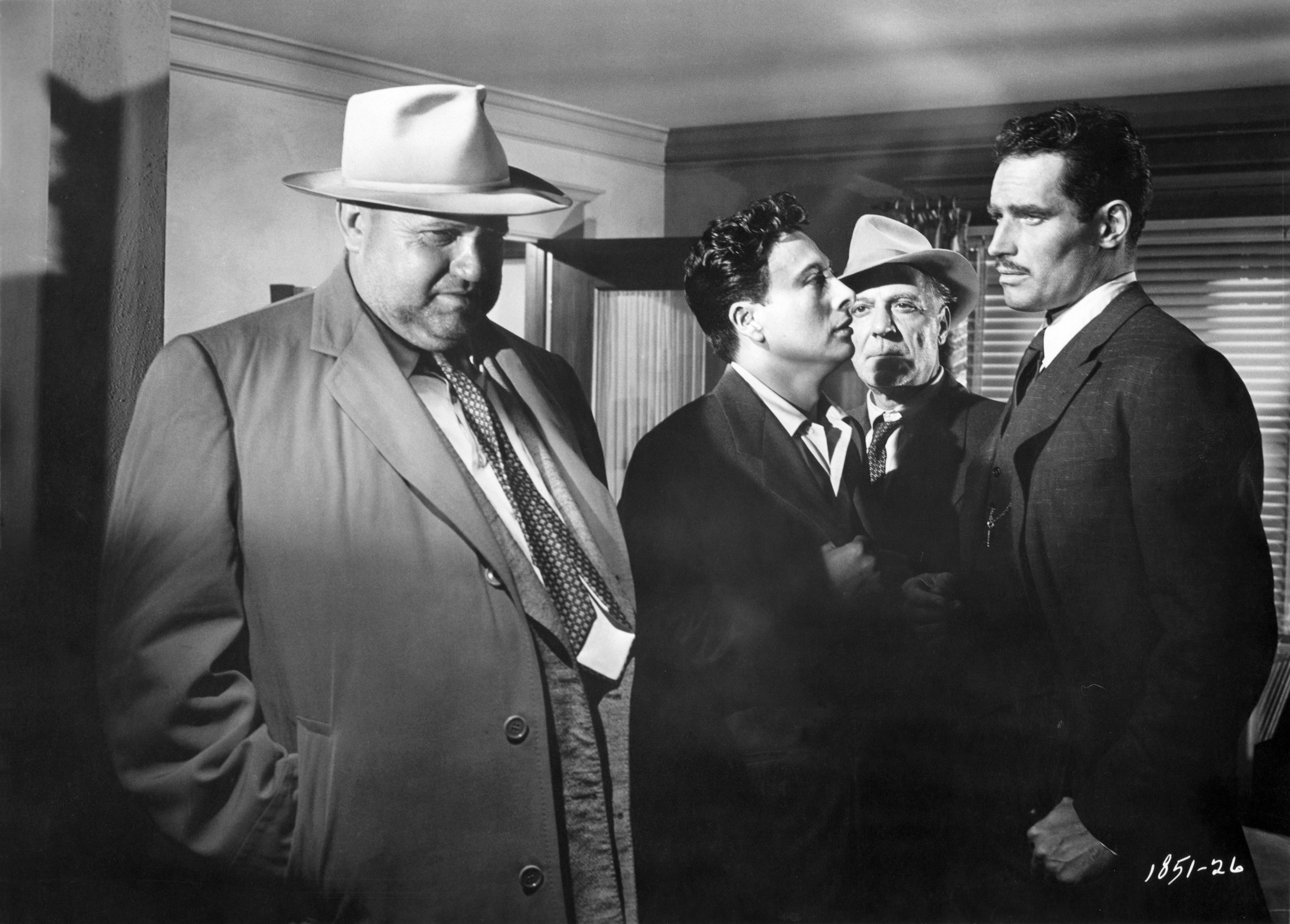 Promotional still for the 1958 film Touch of Evil From left: Orson Welles, Victor Millan, Joseph Calleia, Charlton Heston